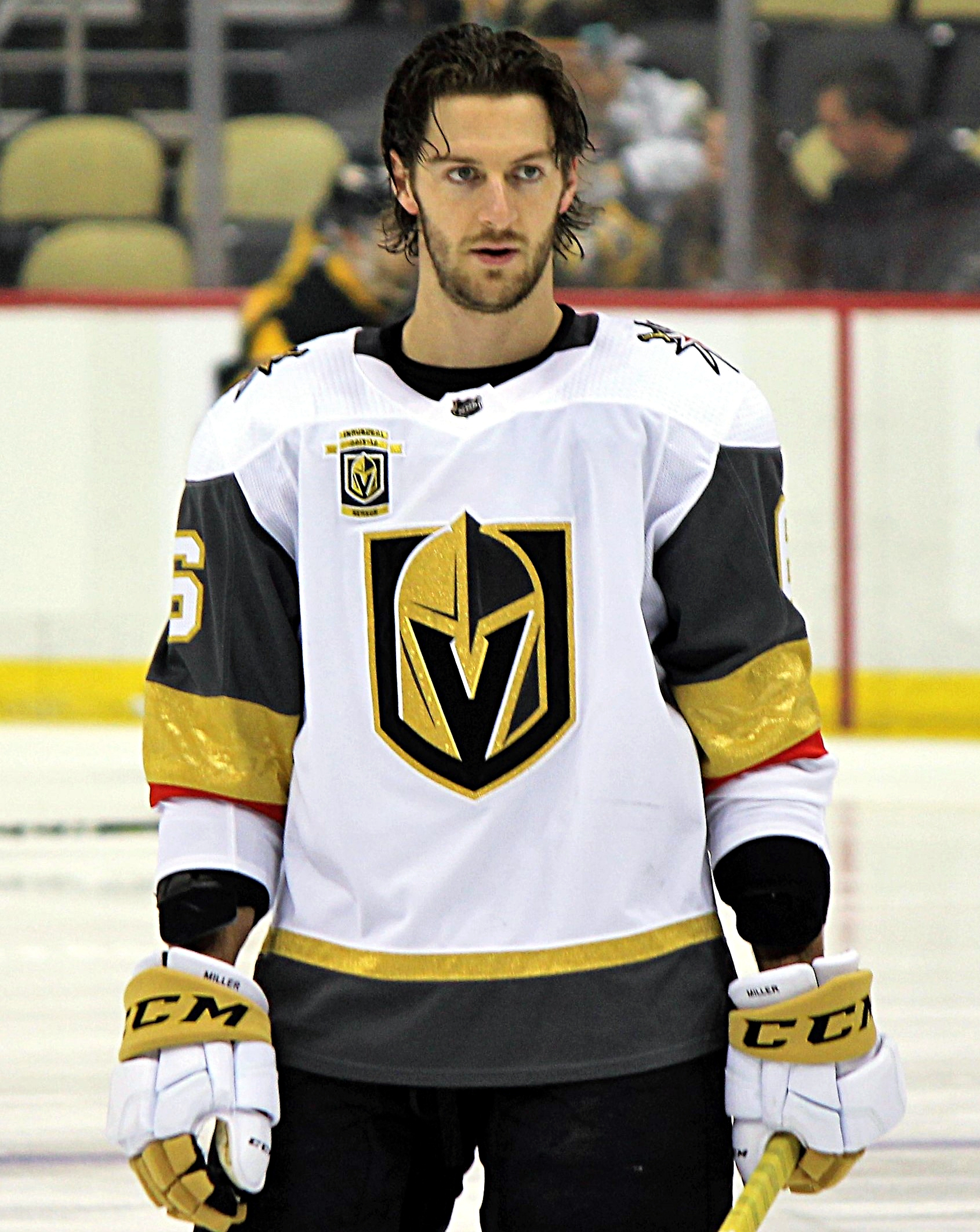 Vegas Golden Knights defenseman Colin Miller during a game against the Pittsburgh Penguins, February 6, 2018, at PPG Paints Arena in Pittsburgh, PA.